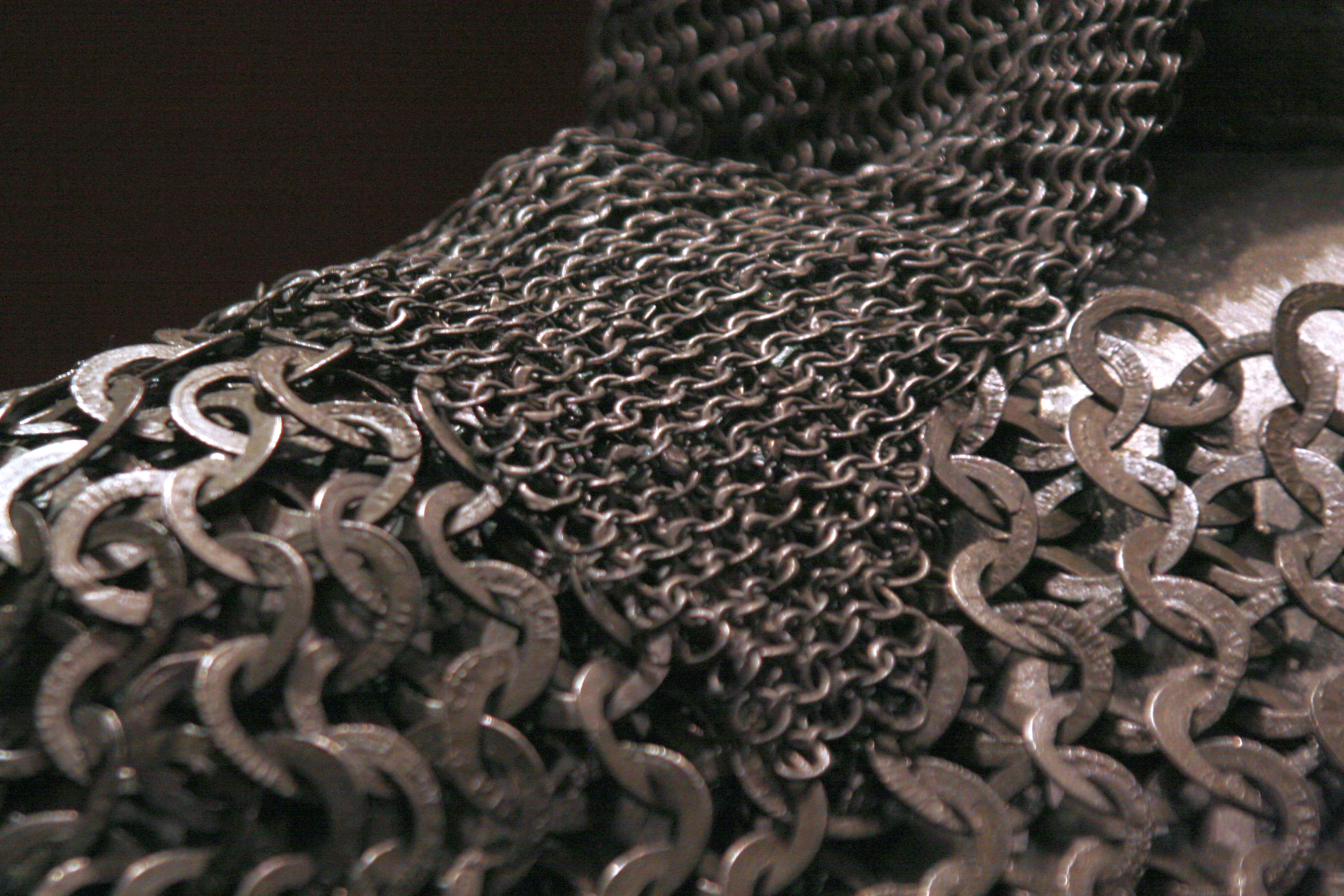 Baidana rings from a hauberk together with Chainmail from a barmitsa belonging to Tsar Boris Godunov. From the Kremlin Armoury collection, room 4.